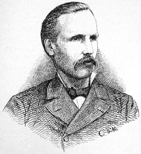 Jean-Joseph Henry Toussaint